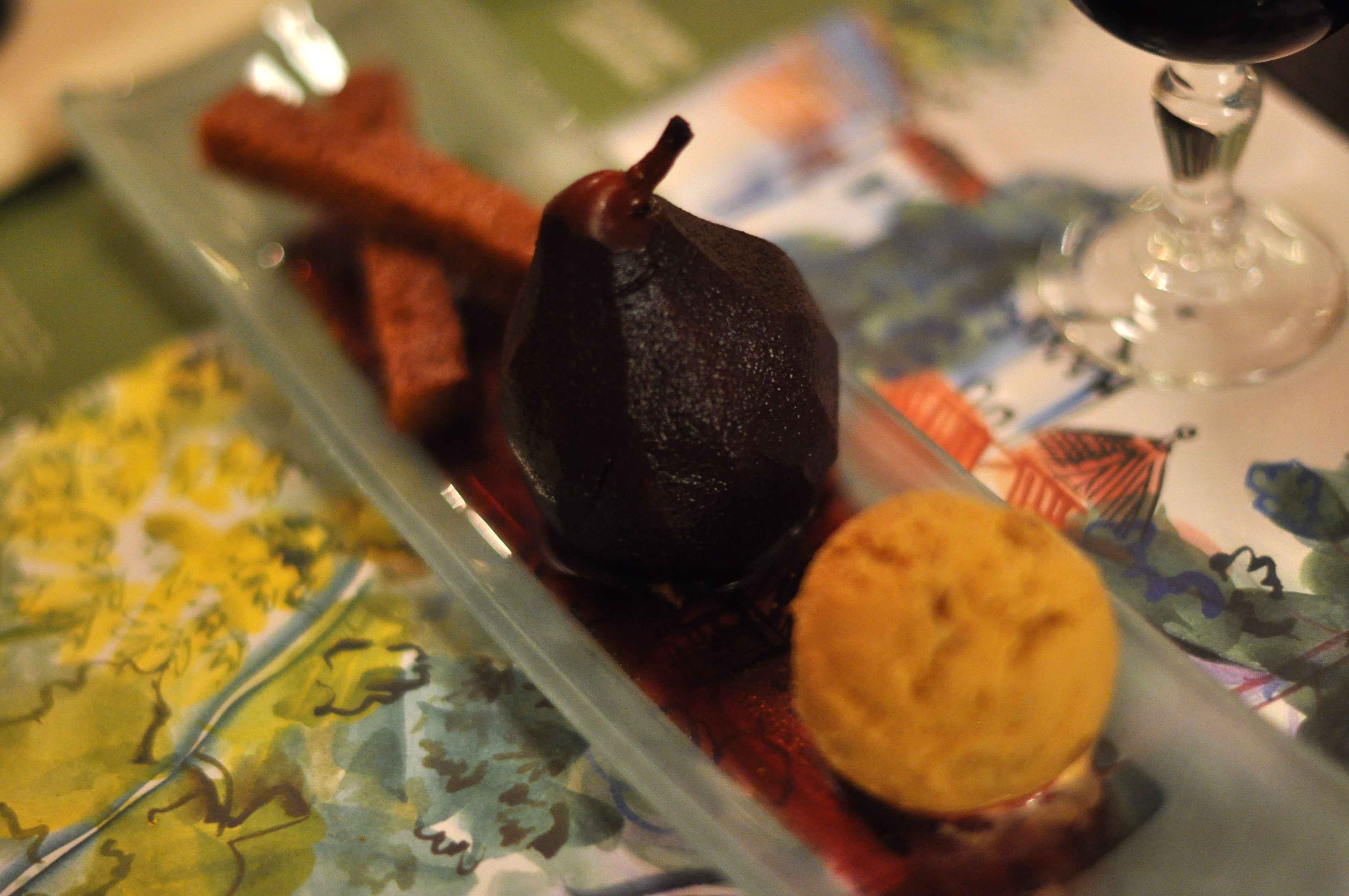 Pære syltet i Banyuls med pain d'épice og is (Pear pickled in Banyuls vinegar with gingerbread and ice cream)